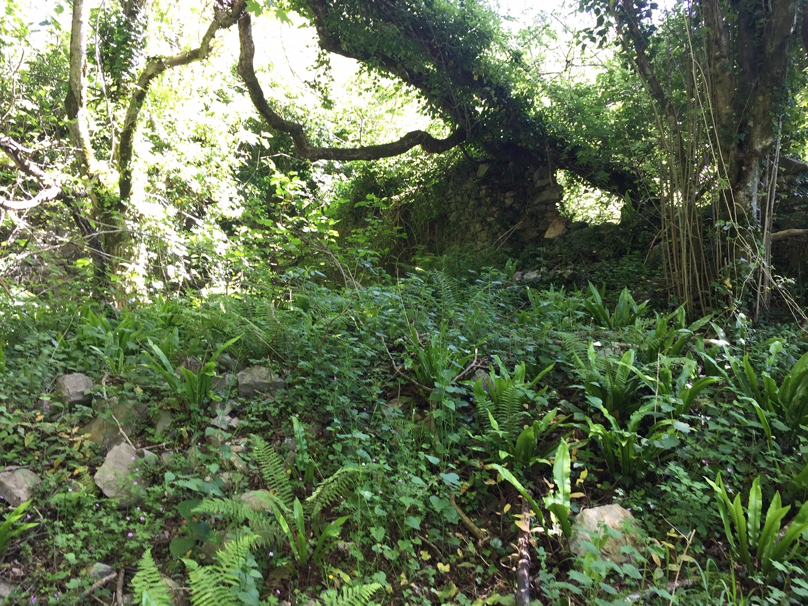 Ruins of Liazasoro farmhouse